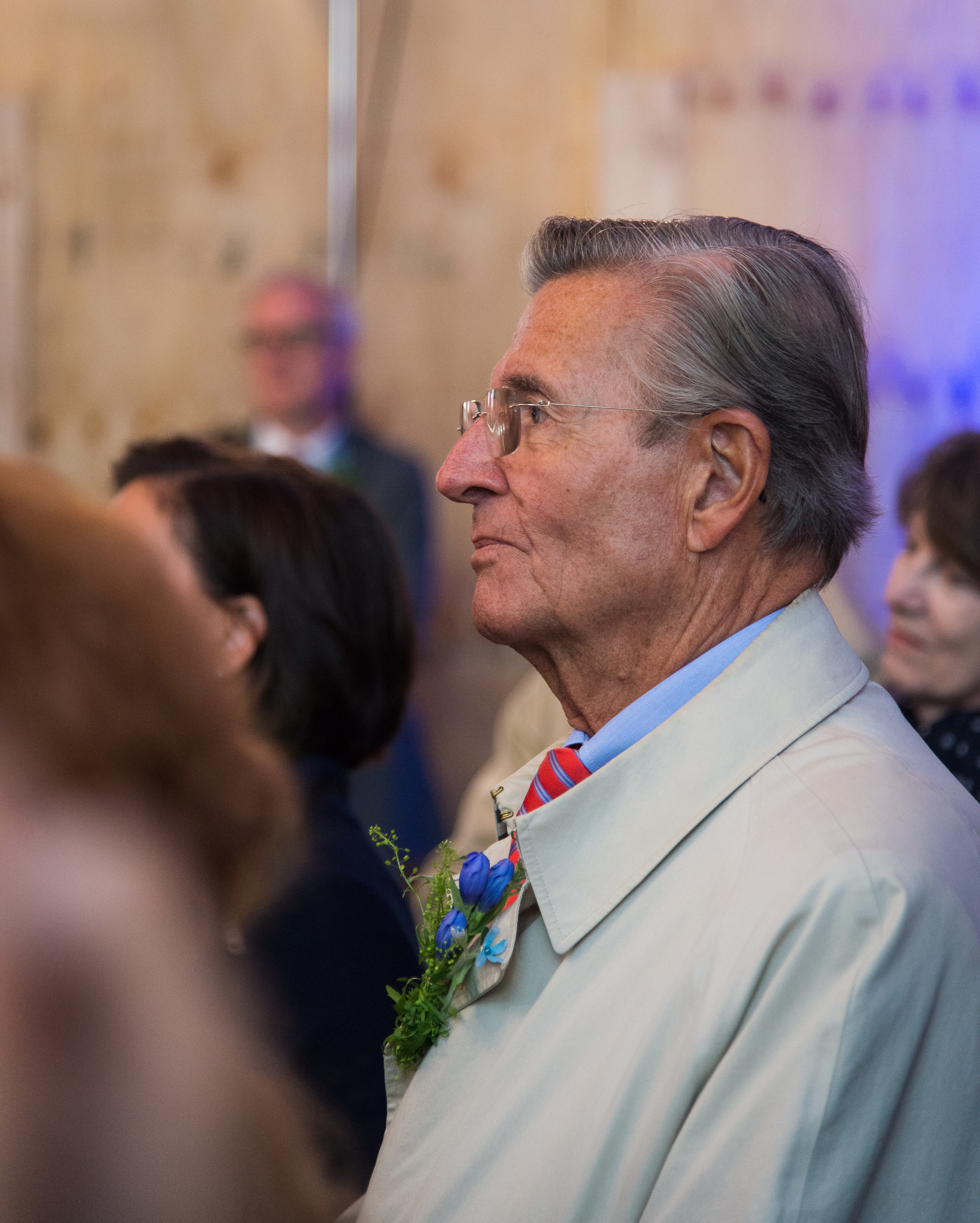 German manager and cultural patron attending the topping-out ceremony of the German Romantic Museum in Frankfurt am Main (September 2017).